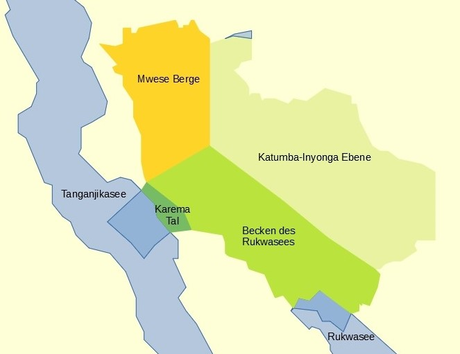 Katavi, Region in Tanzania, Geography